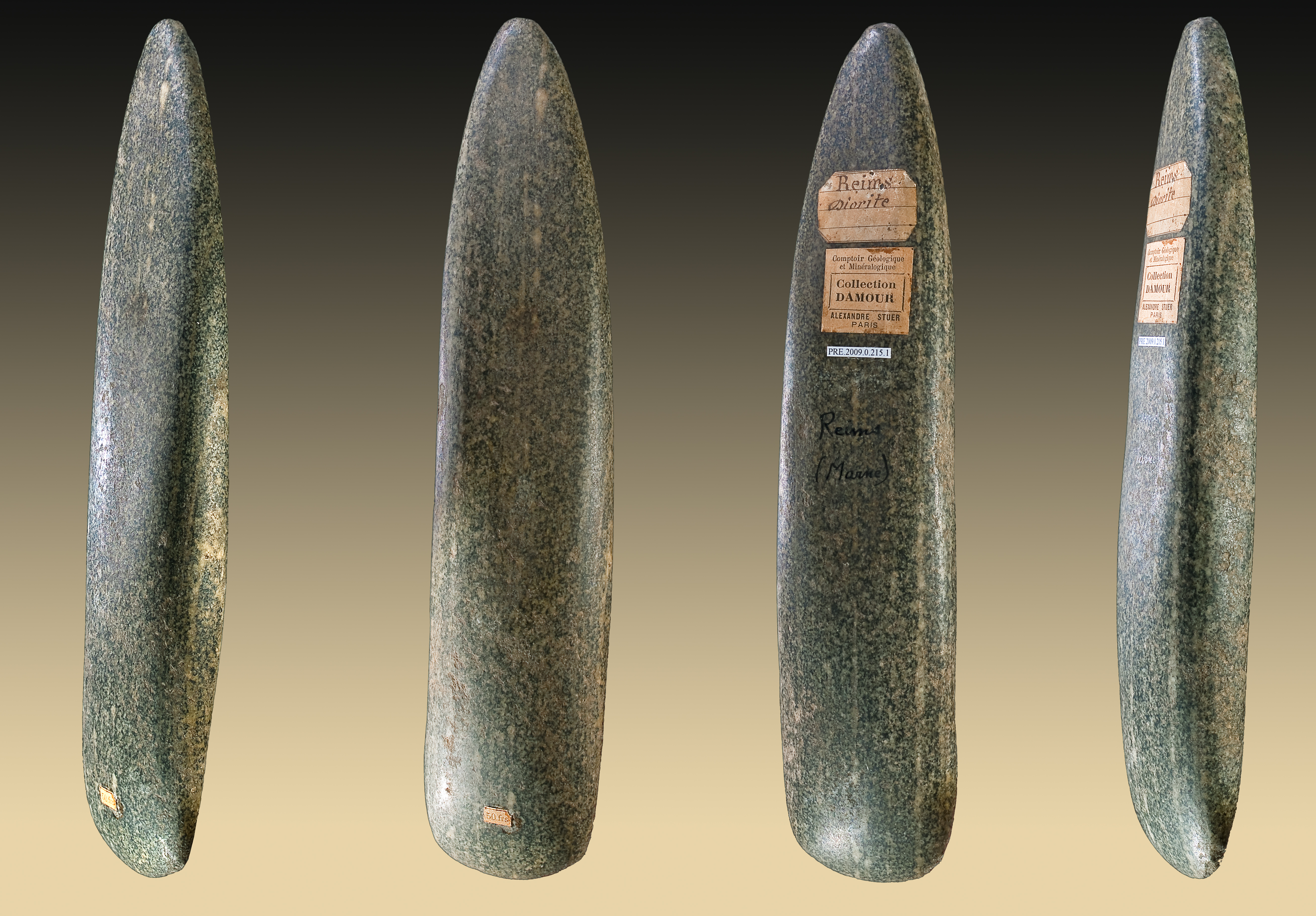 Polished Neolithic ax in diorite - Views of the same object Locality : Surroundings of Reims (Marne) France Alexis Damour Collection - Museum of Toulouse Size : 250x52x33mm